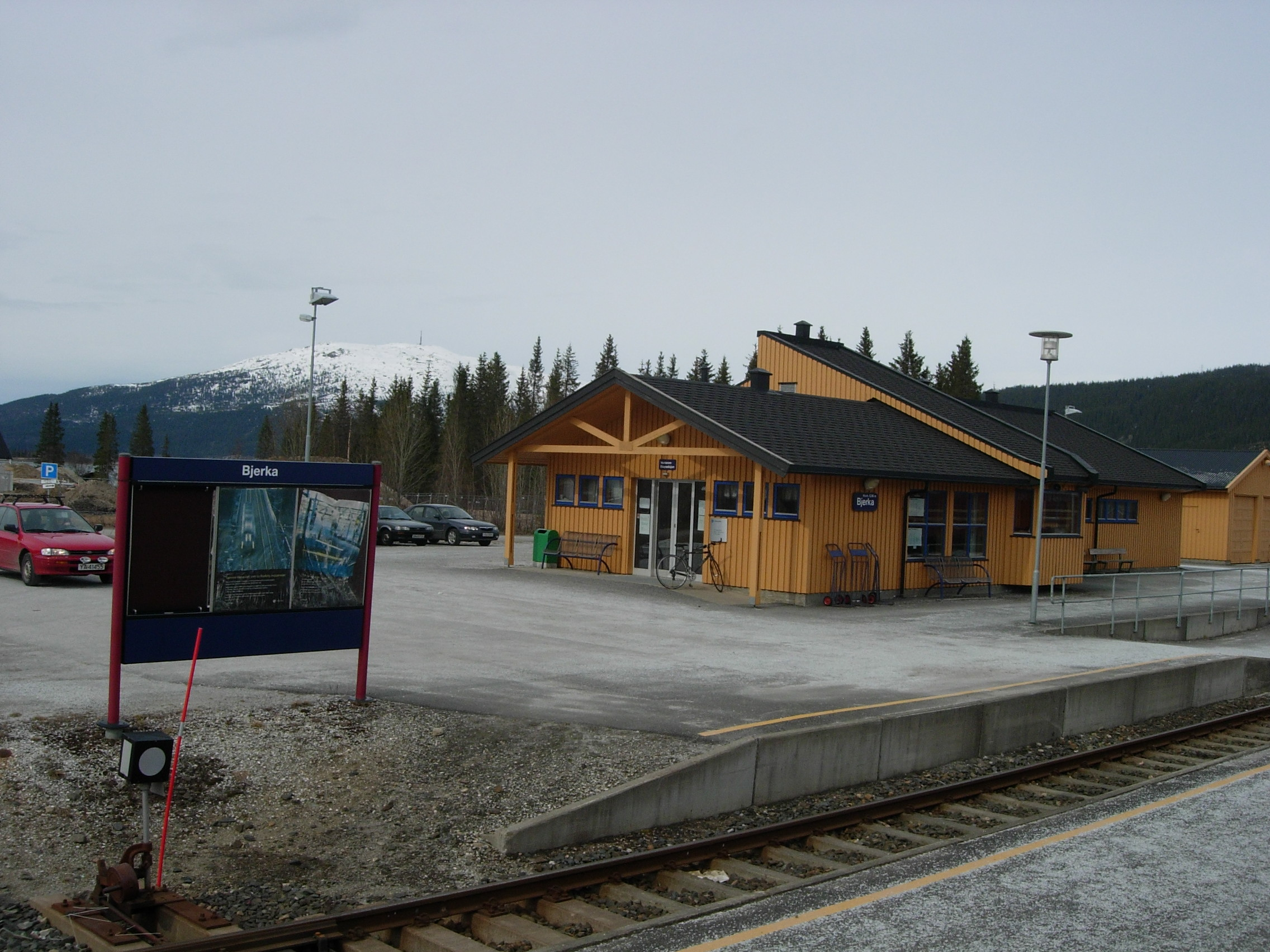 Bjerka station on Nordlandsbanen, Norway